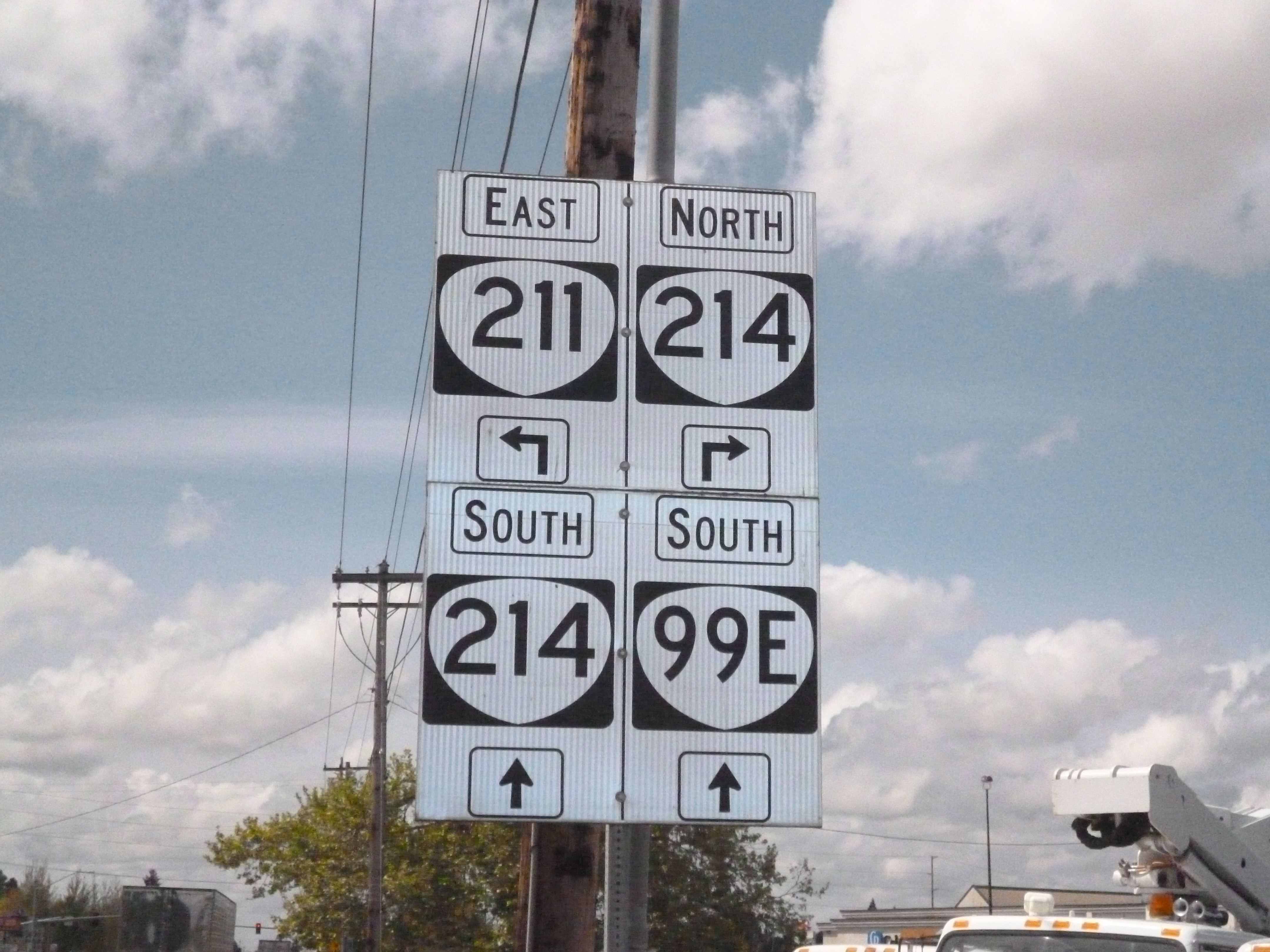 Directional sign for three Oregon state routes in Woodburn, Oregon.